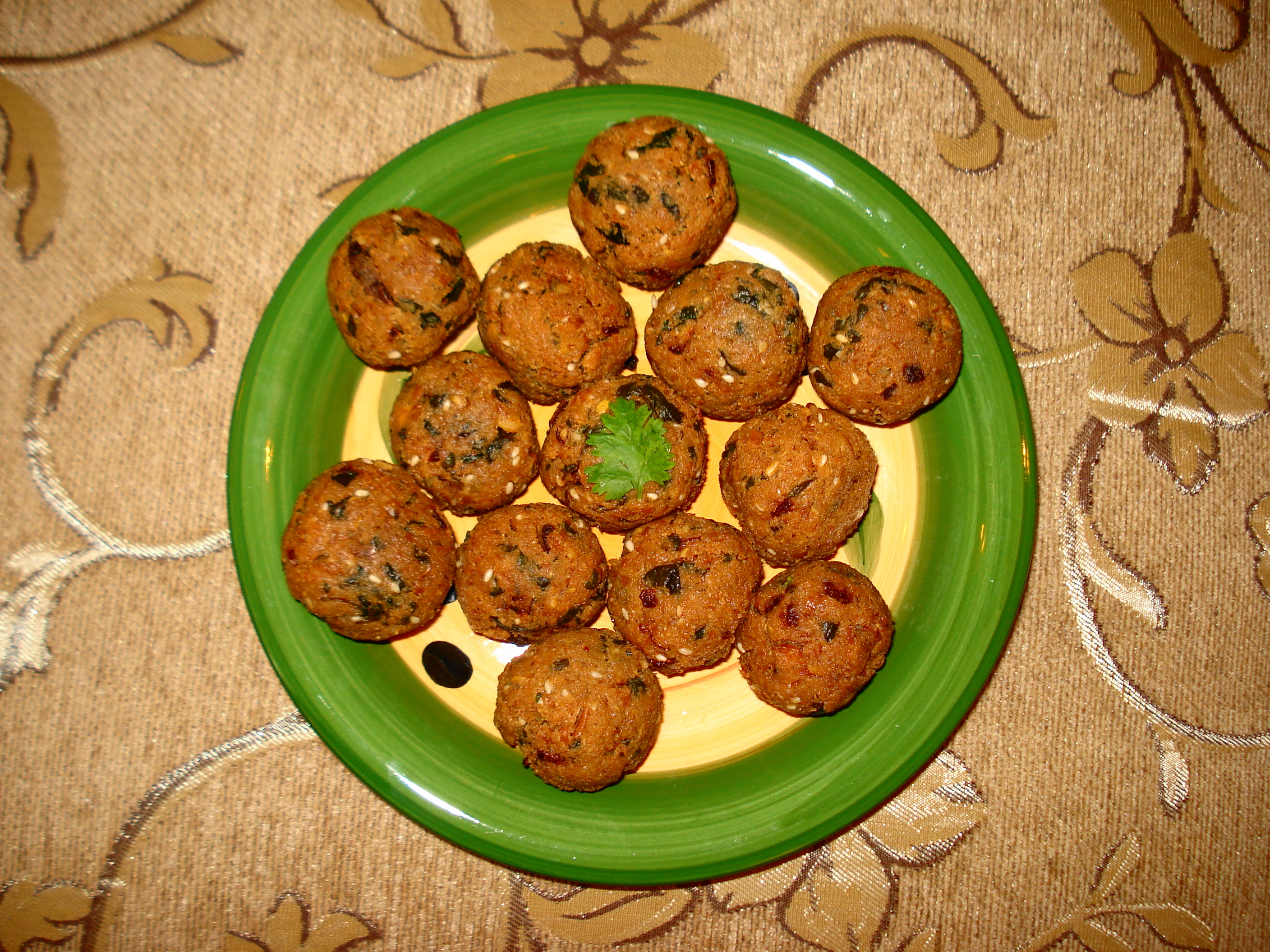 Falafel